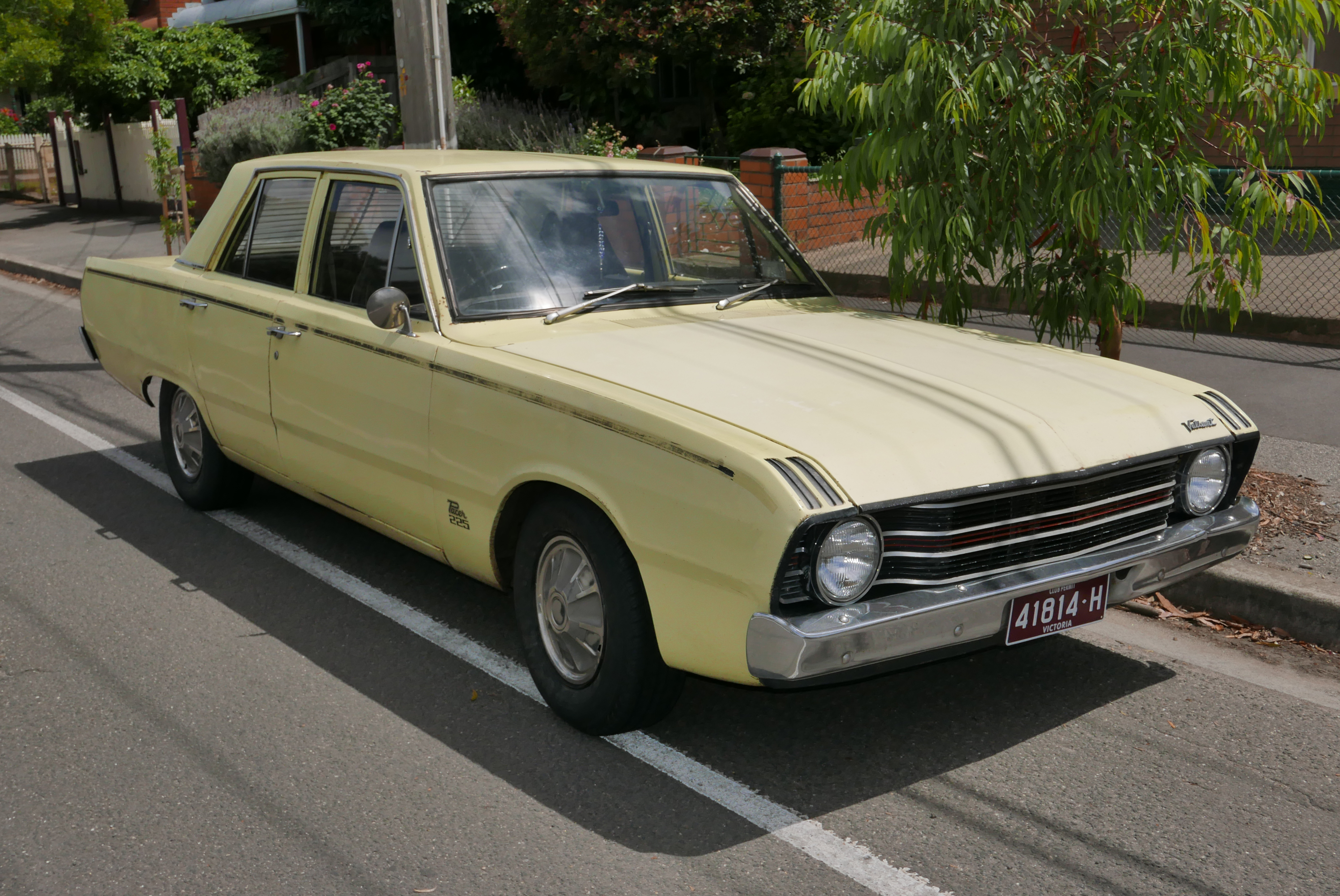 1969–1970 Chrysler Valiant (VF) Pacer 225 sedan. Photographed in Brunswick East, Victoria, Australia.